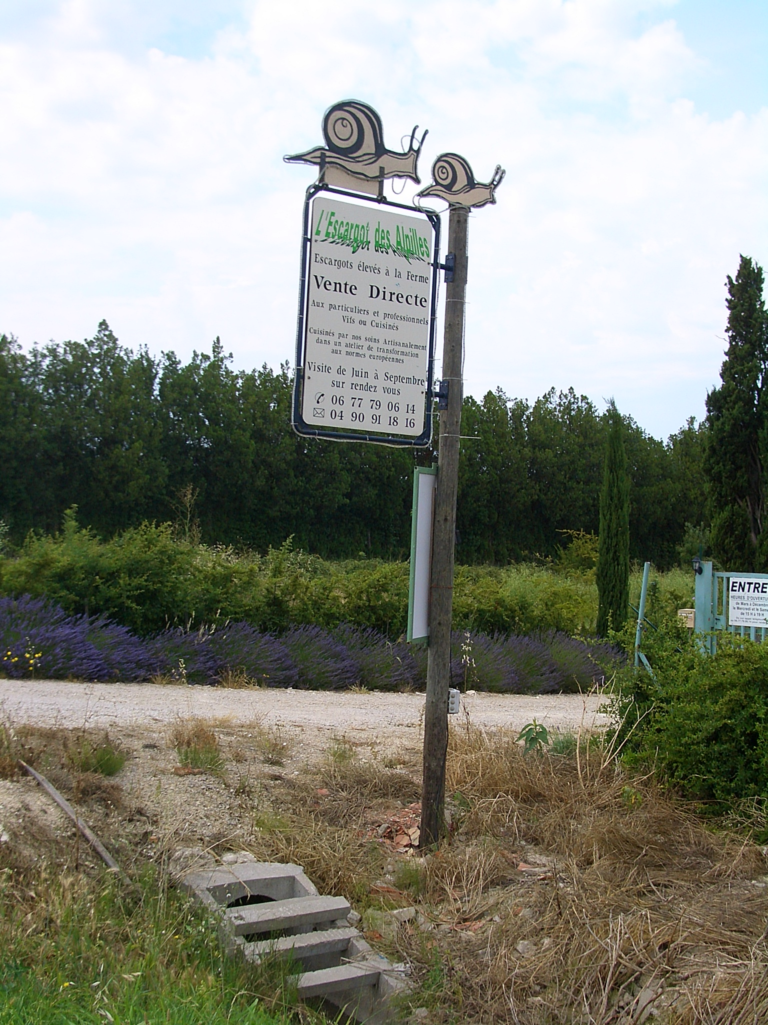 At the gates of "L'Escargot des Alpilles", a snail farm between Eyragues and St-Remy, Provence (south of Avignon).